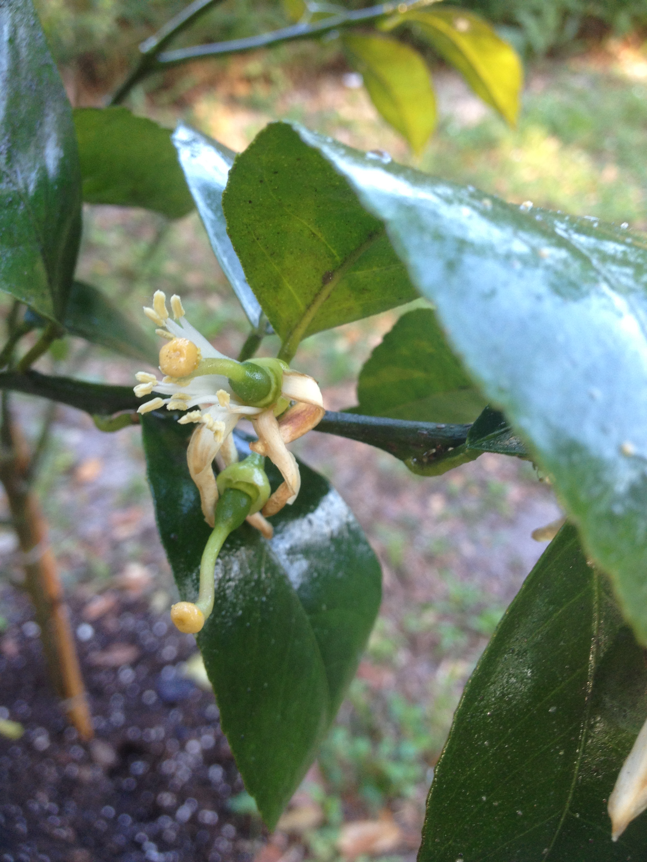 This is a picture of buds post flower from an improved meyer lemon tree. The buds will take 3-4 months to turn into a full lemon. The picture was taken from a planted tree in South Florida.